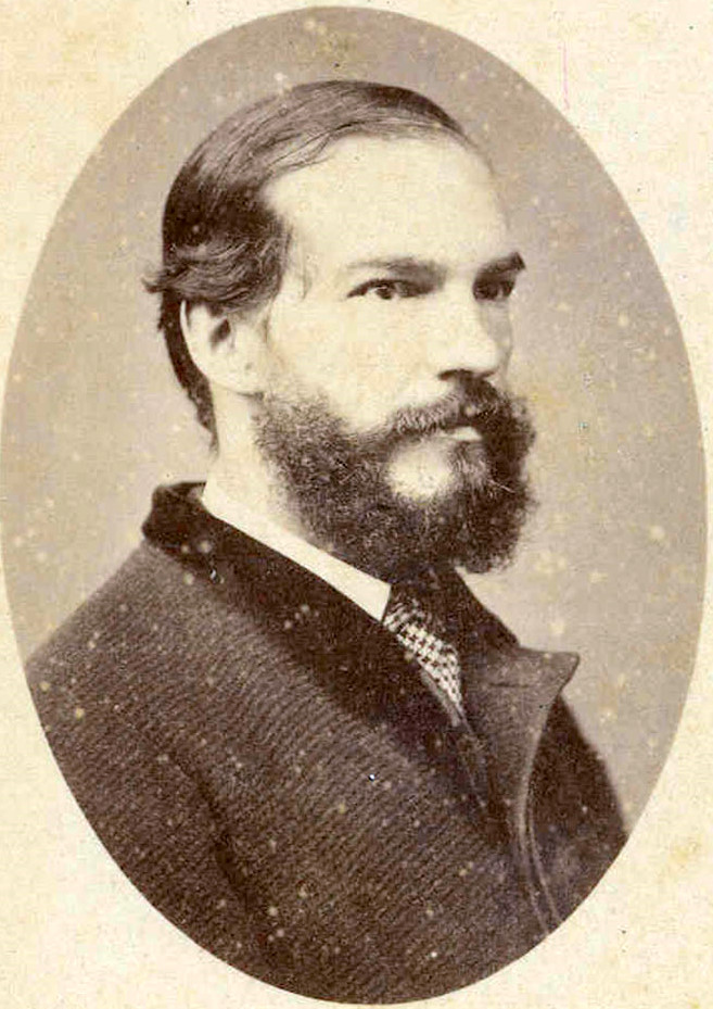 Rufino José Cuervo, writer from Colombia